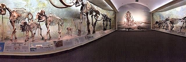 Picture of dinosaur display